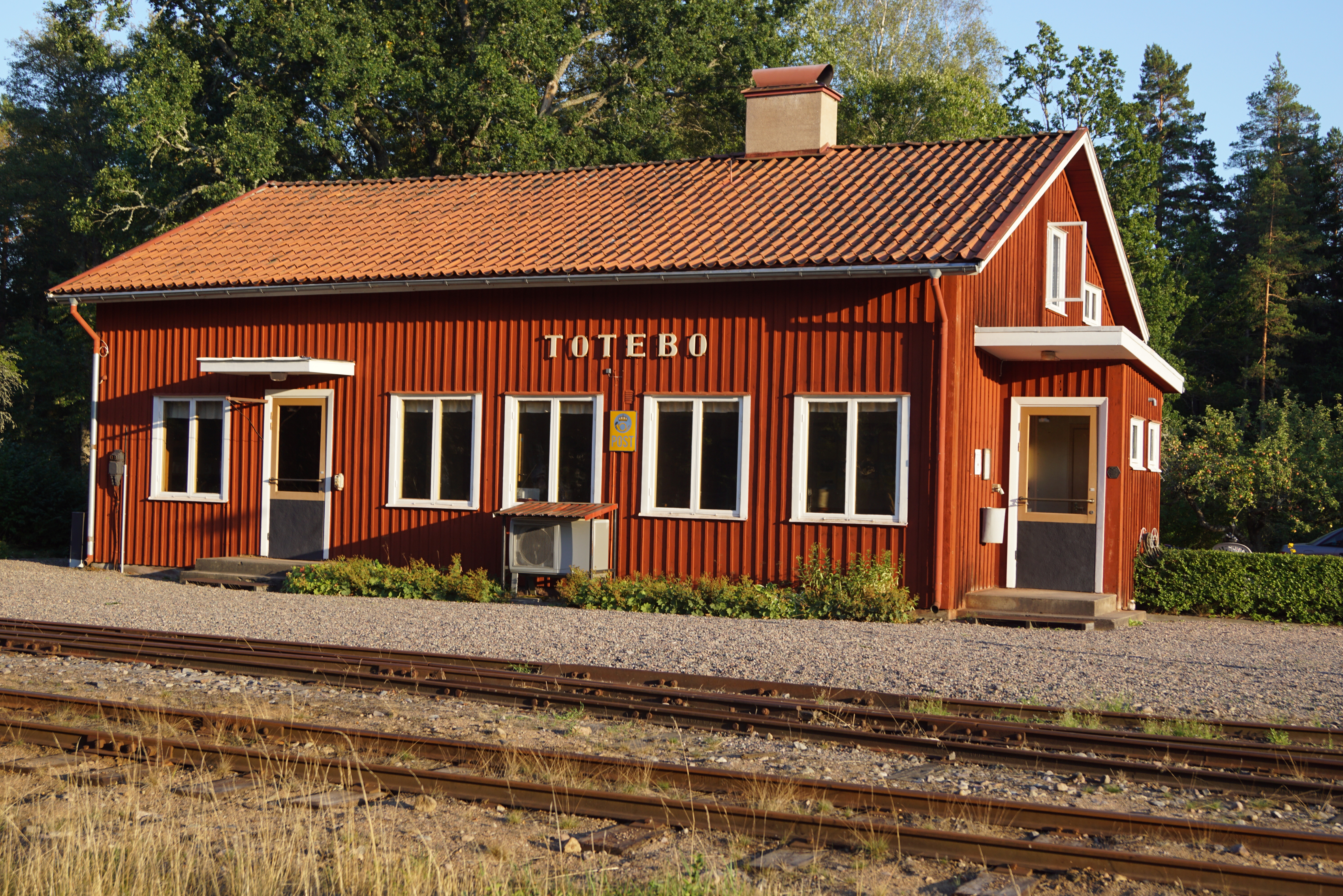 The train station in Totebo in Västervik Municipality, Sweden.